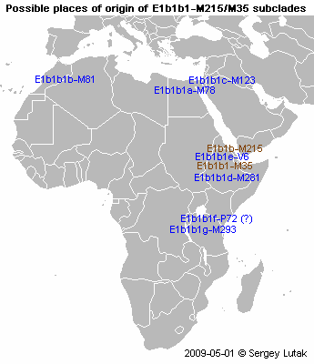 Possible places of origin of E1b1b1-M215M35 subclades